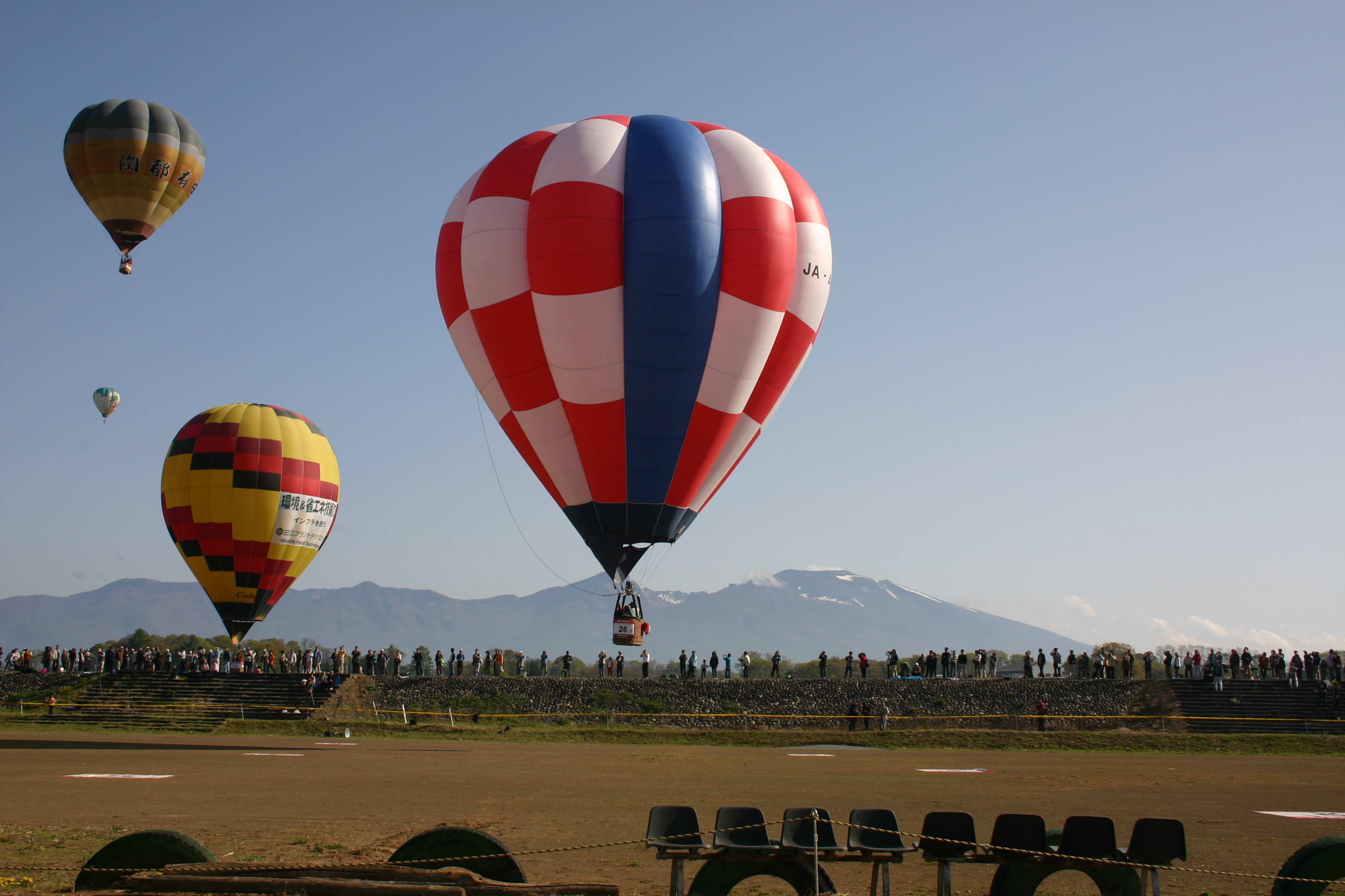 saku city balloon festival.